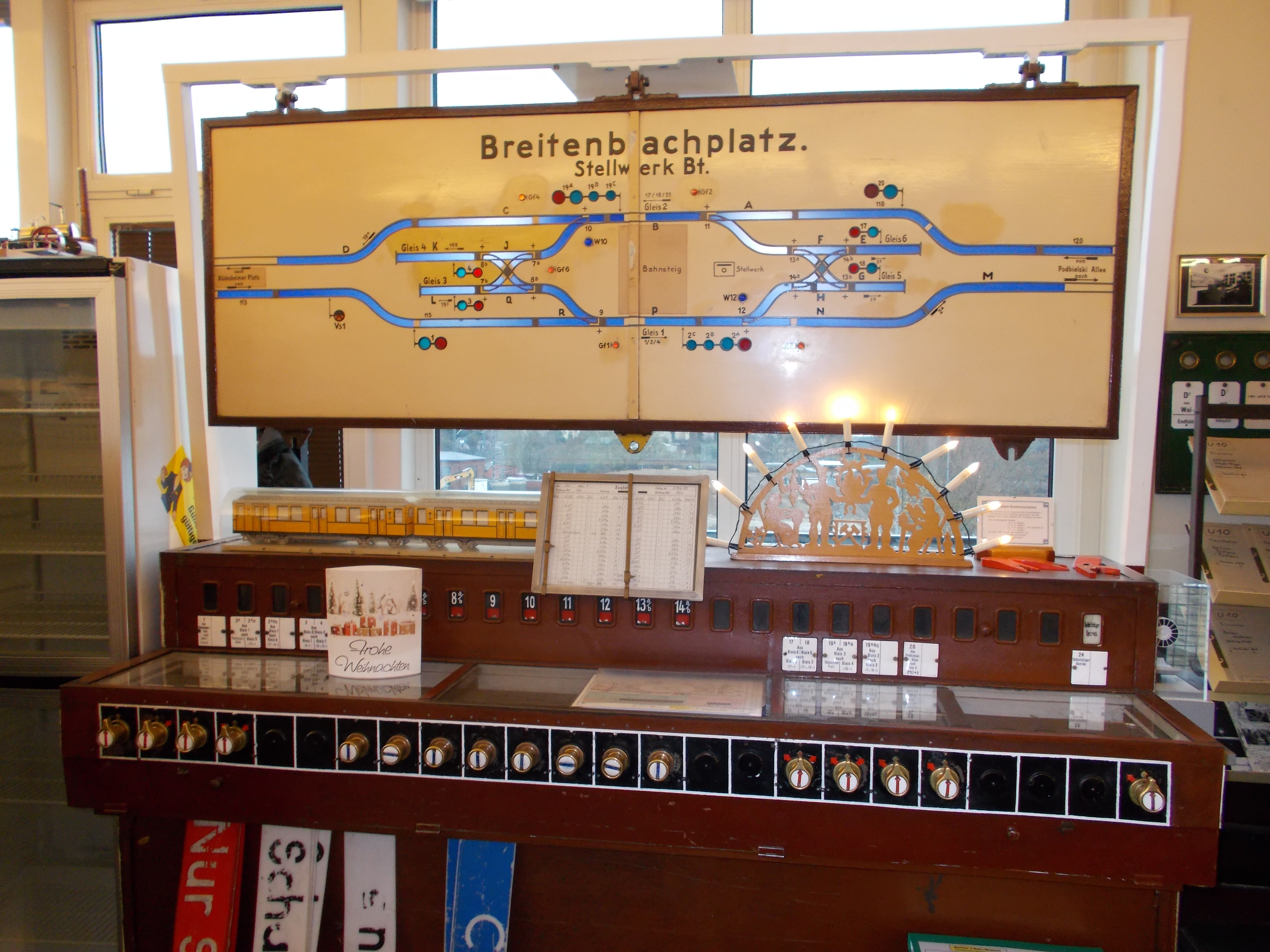 Former control panel for the switch tower Berlin U-Bahn station Breitenbachplatz